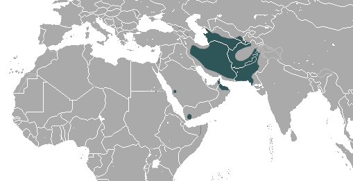 Brandt's Hedgehog (Paraechinus hypomelas) range